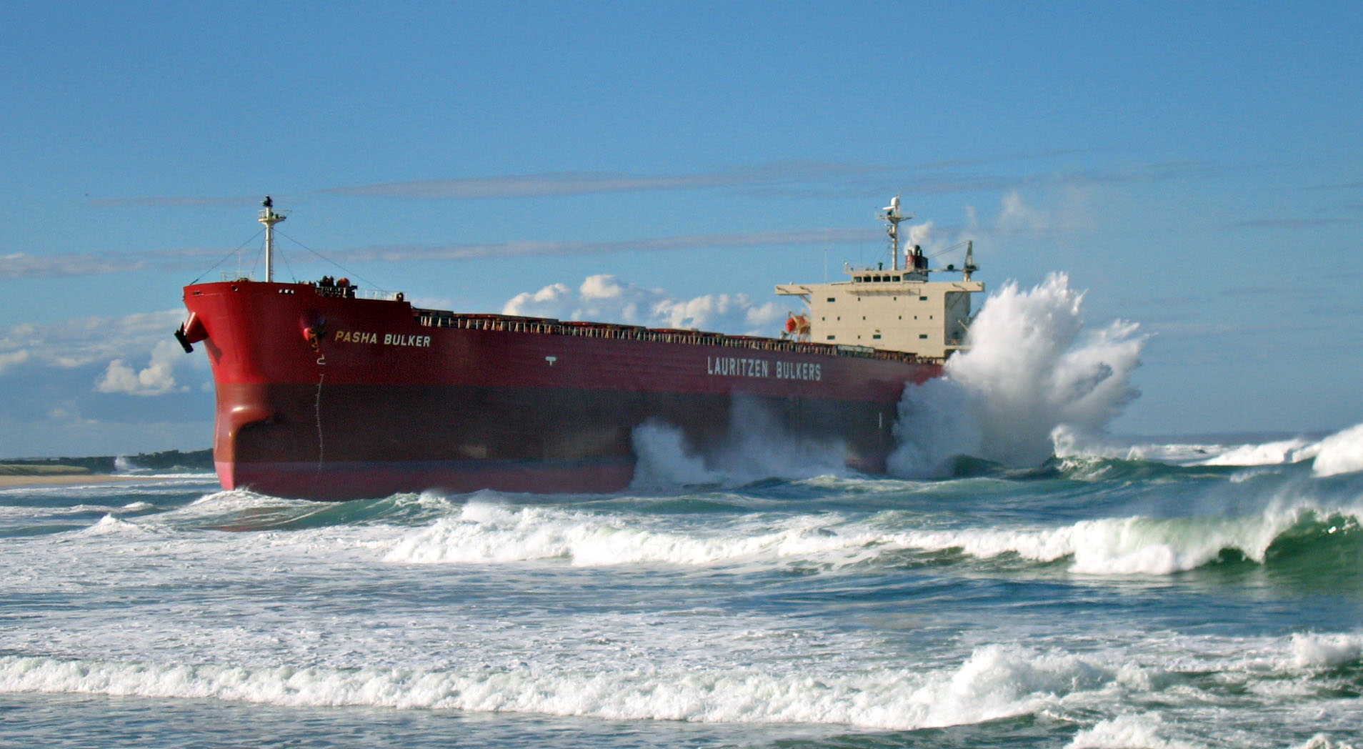 The Pasha Bulker stuck fast on Nobbys Beach